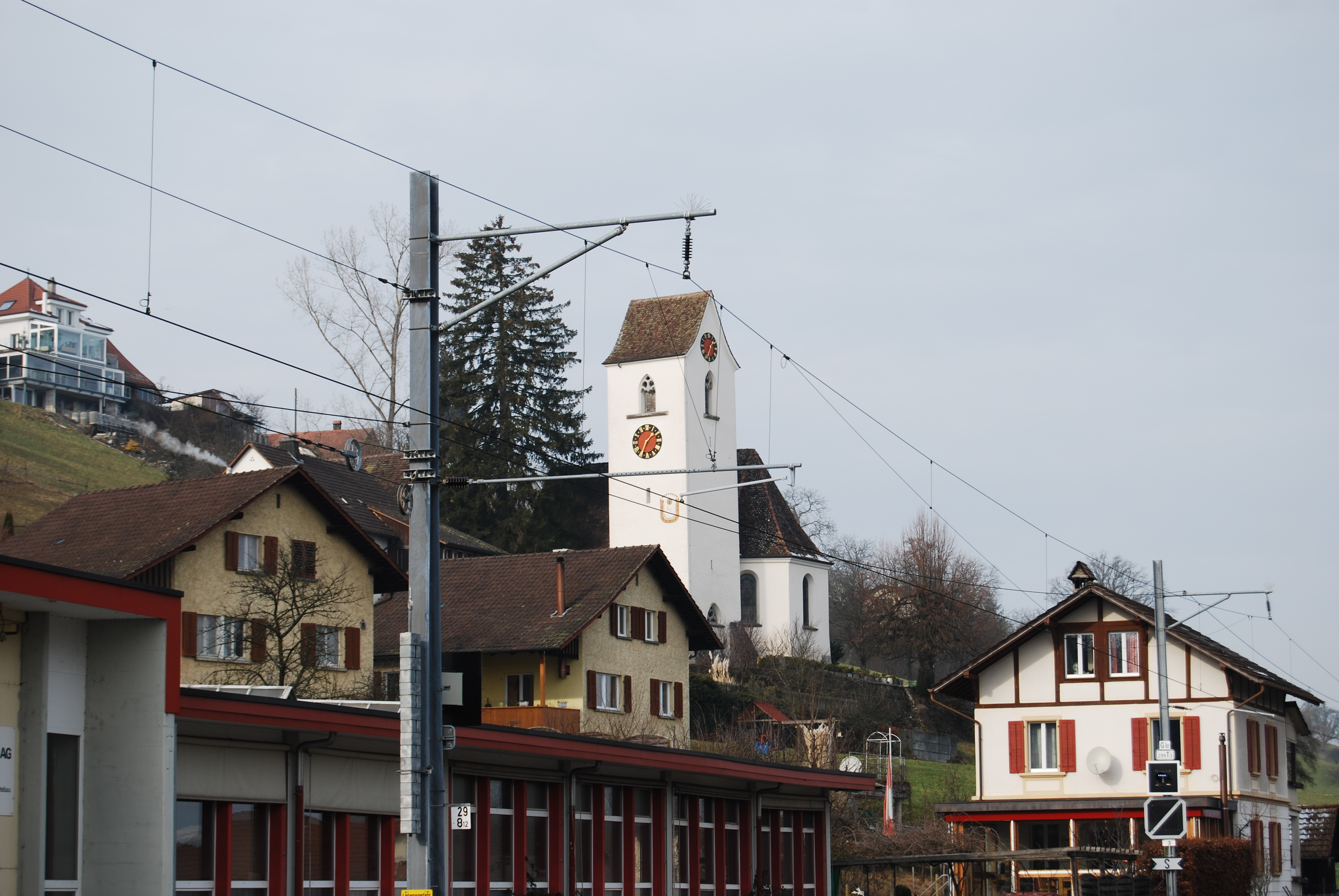 Church of Birrwil, canton of Aargau, SwitzerlandEsperanto: Preĝejo Birrwil, Kantono Argovio, Svislando